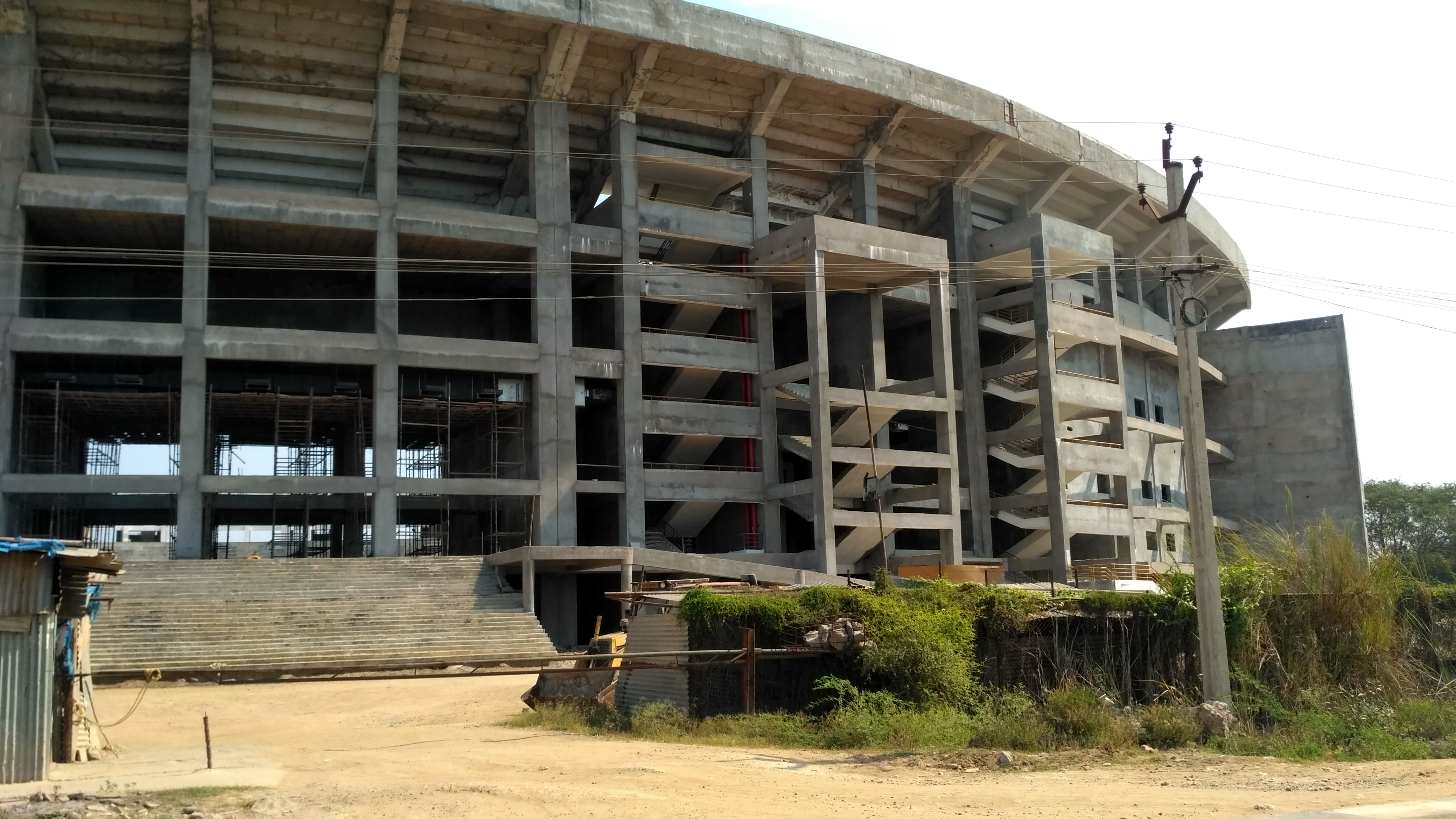 ACA cricket stadium under construction in Mangalagiri, Amaravati